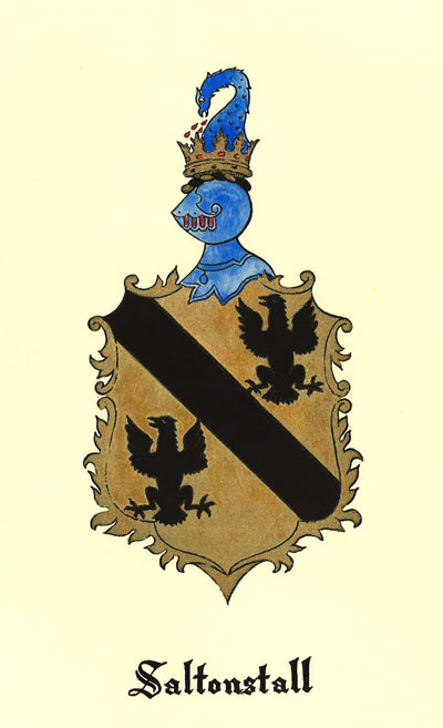 Saltonstall Family coat of arms